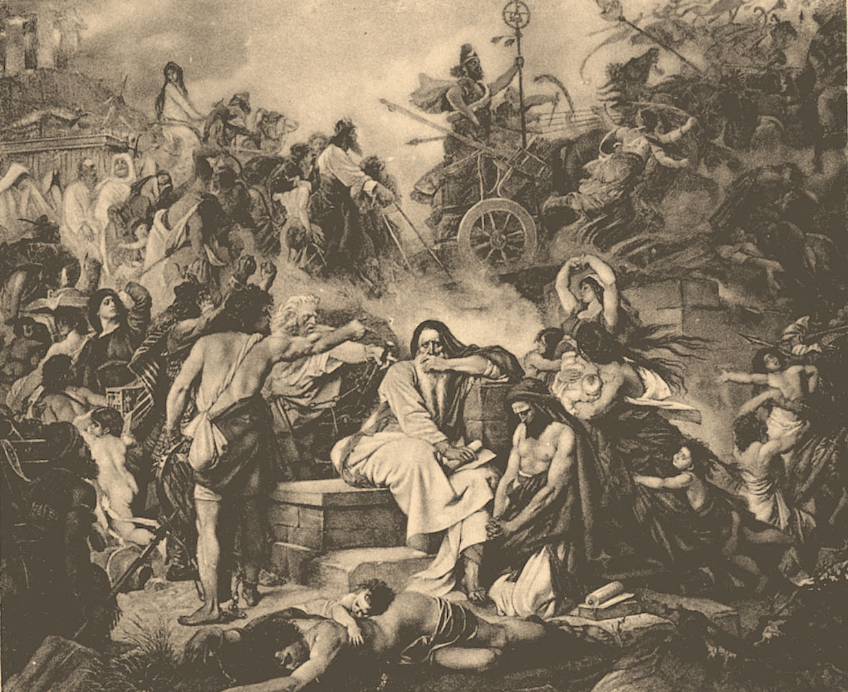 Illustration from Brockhaus and Efron Jewish Encyclopedia (1906—1913)